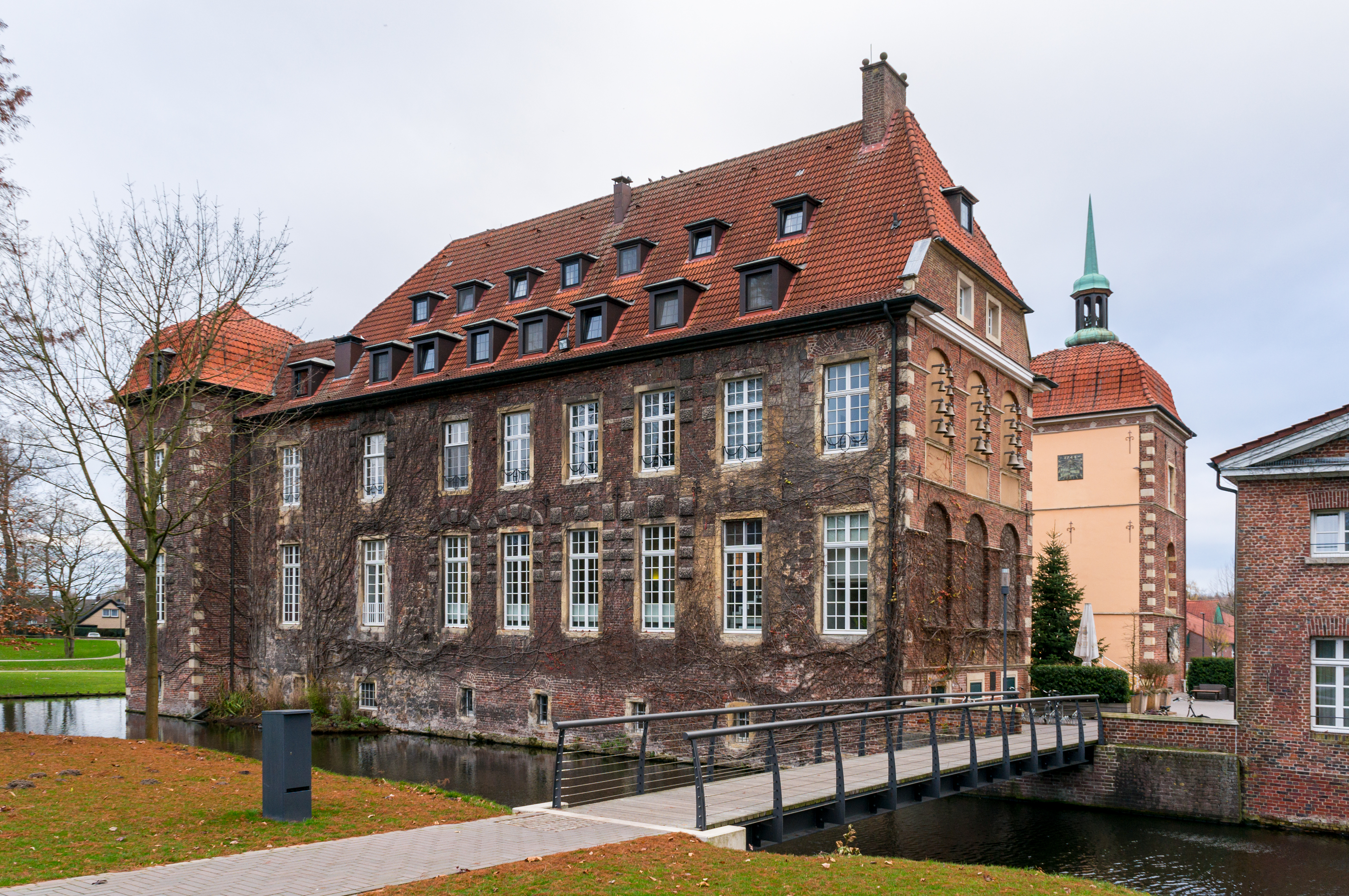 Velen Castle (view from south), Velen, North Rhine-Westphalia, Germany This image shows a heritage building in Germany, located in the North Rhine-Westphalian city Velen (no. 30).